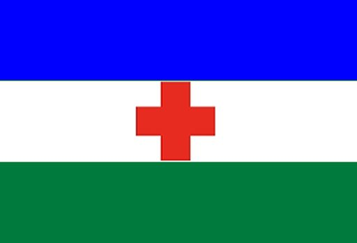 Flag of Robore